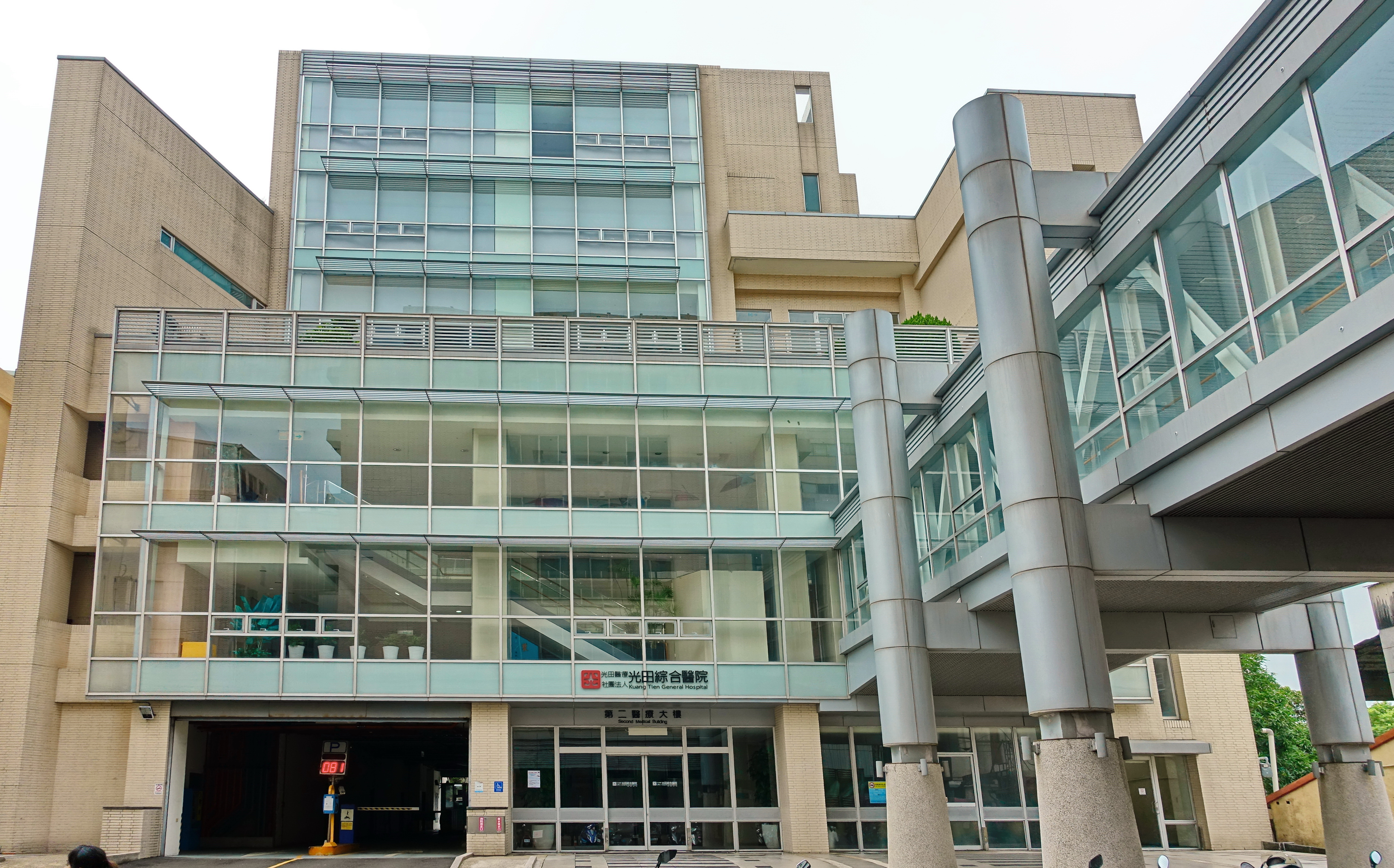 Kuang Tien General Hospital, Second Medical Building, Shalu District, Taichung City, Taiwan.